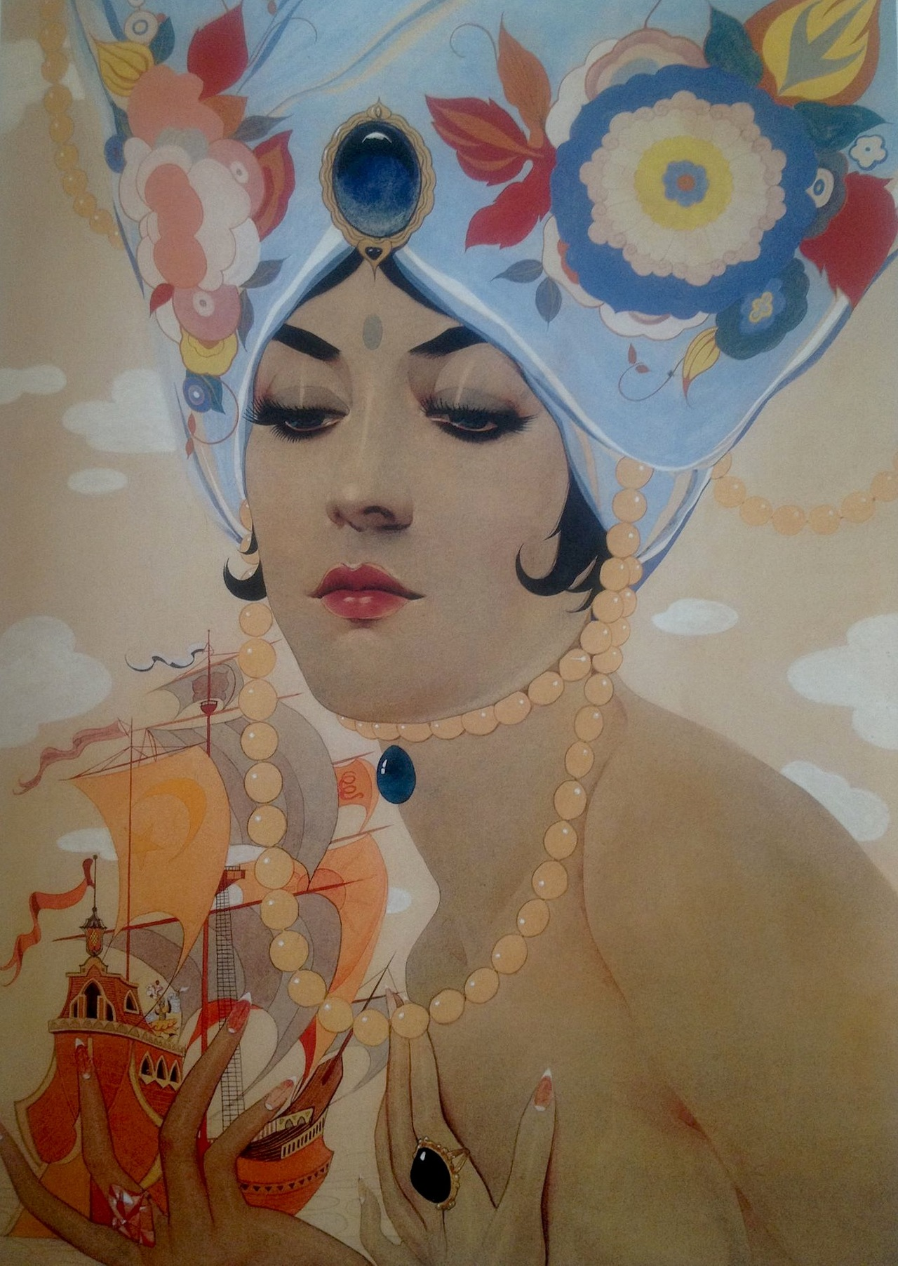 Scheherazade by Alberto Vargas, 1921